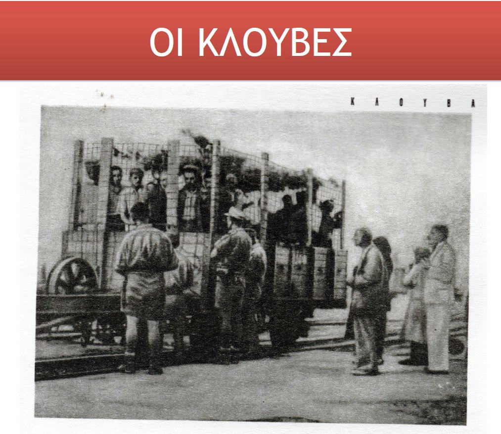 “The crates” - Open railway wagons with prisoners, used by German occupation forces to prevent attacks of Greek partisans. Greece 1943.